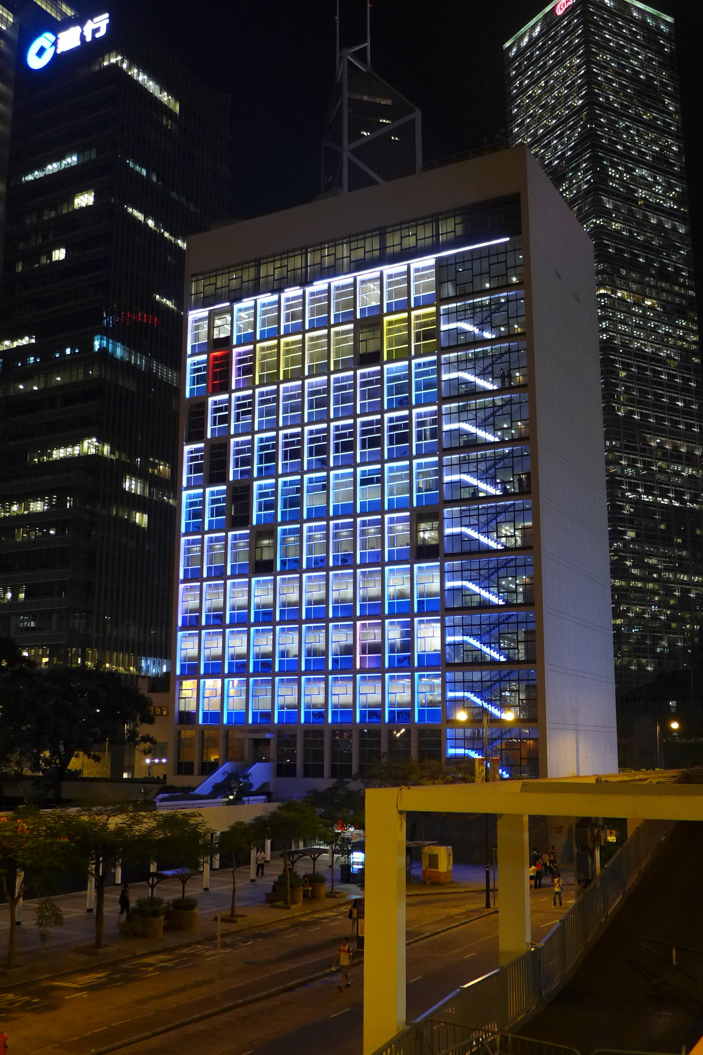 The City Hall High Block Night View